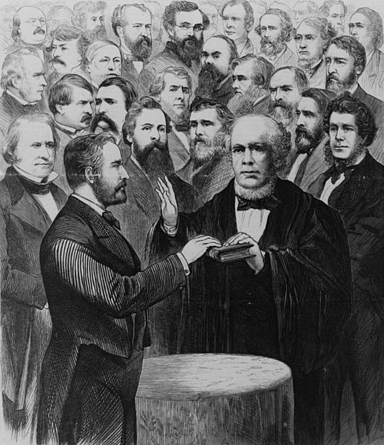 Chief Justice Salmon P. Chase administering the oath of office to President Ulysses S. Grant on March 4, 1873, during Grant's second presidential inauguration.